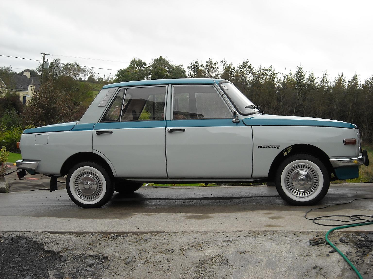 pic of my immaculate wartburg 353, two stroke car from communist East Germany before the collapse of the Berlin Wall. These cars are surprisingly very reliable and sturdily built.